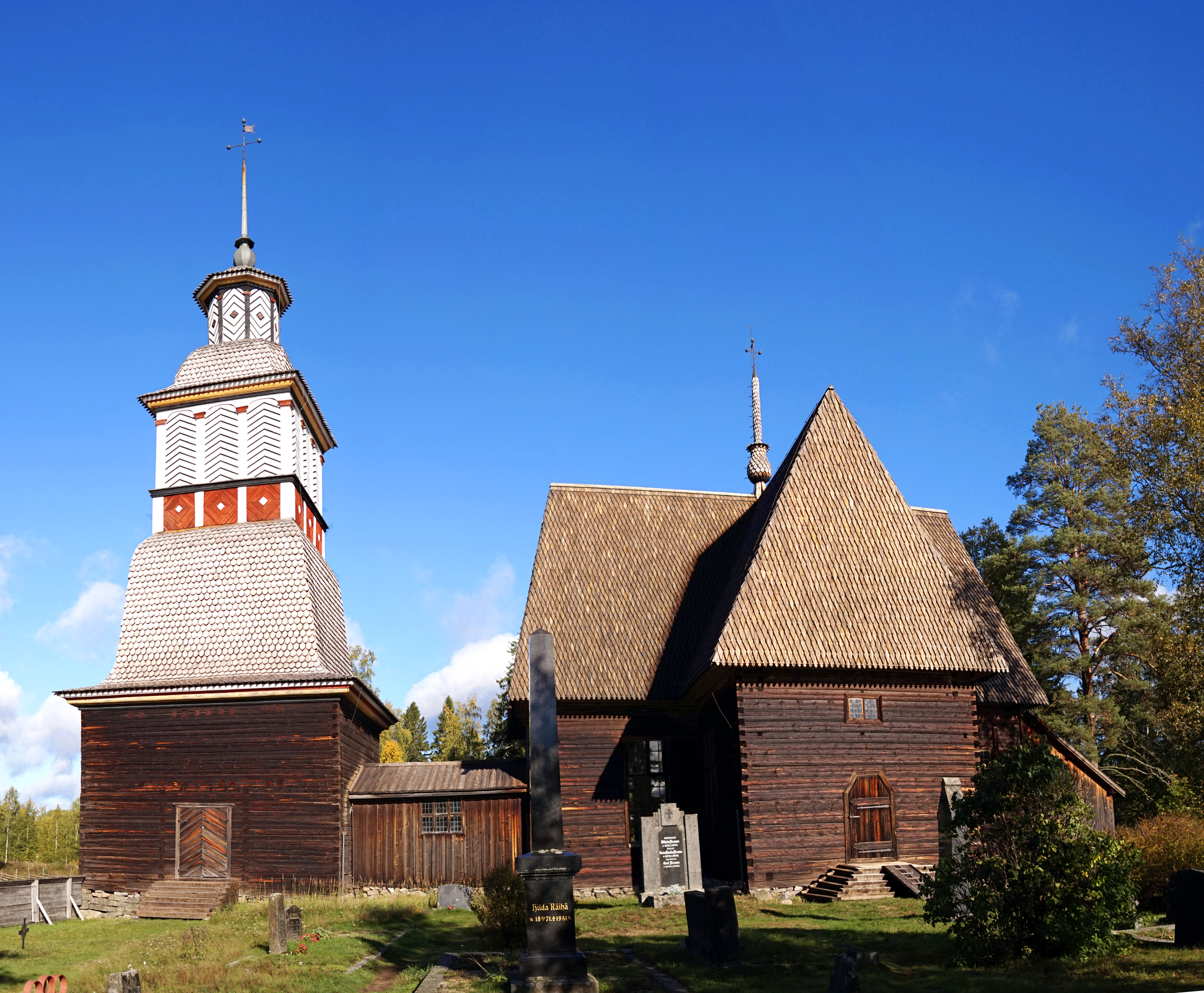 Petäjävesi Old Church This is a photo of a monument in Finland identified by the ID 'Petäjävesi Old Church' (Q435829) - RKY: 221